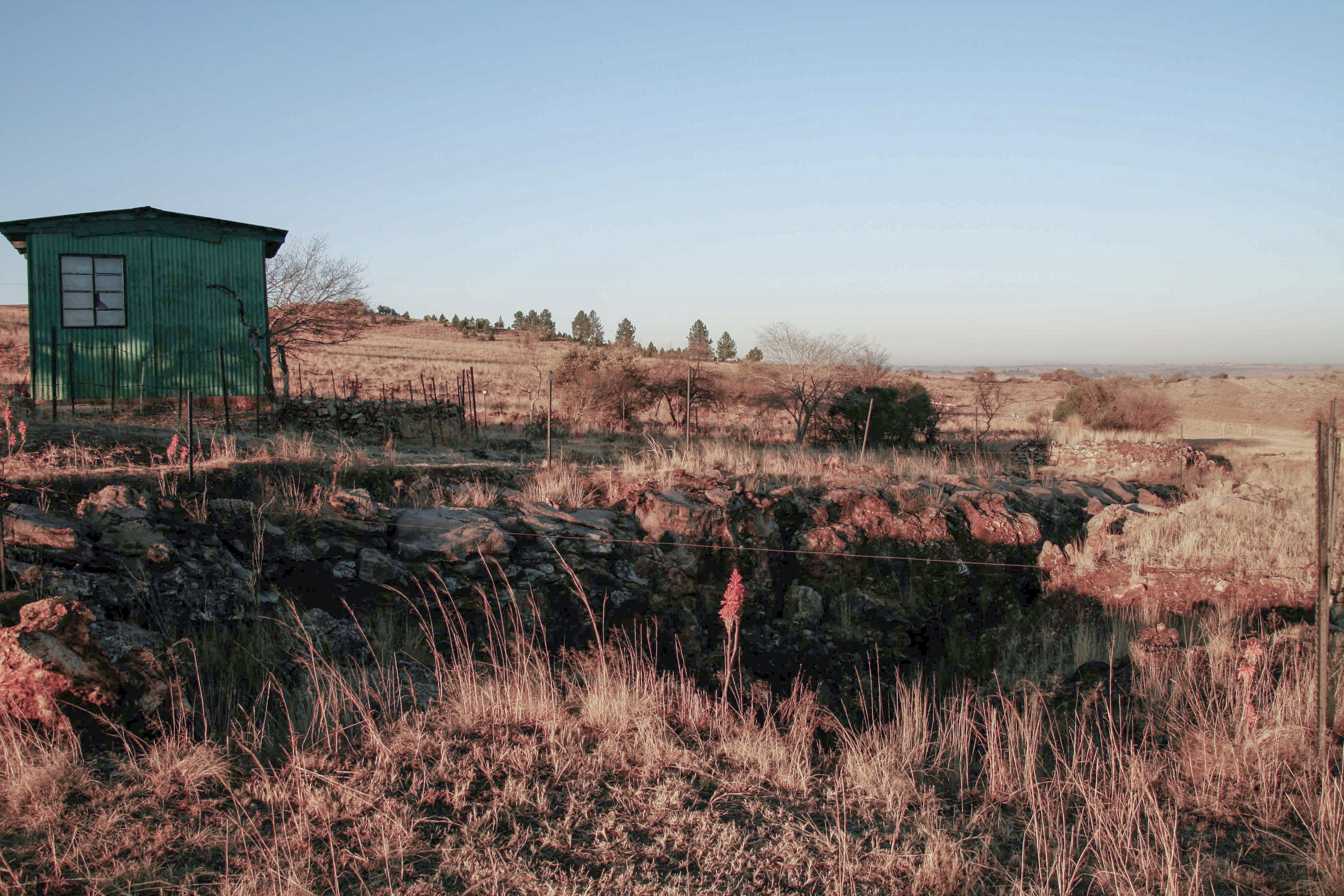 View of Kromdraai B, South Africa. Photo by Lee R. Berger.